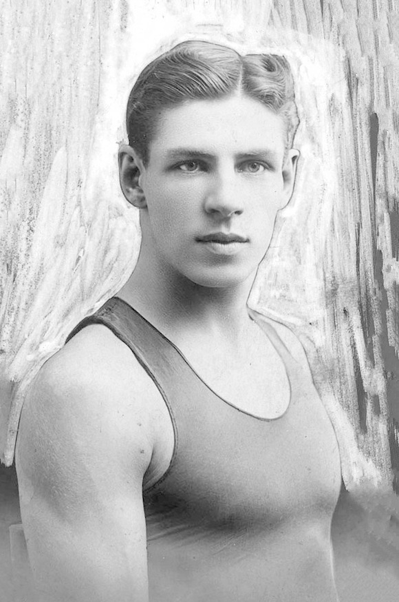 Harold Hardwick won a gold and two bronze medals at the 1912 Olympic Games, Stockholm. Harold Hardwick won a gold medal at the 1912 Olympic Games. Format: Photograph.